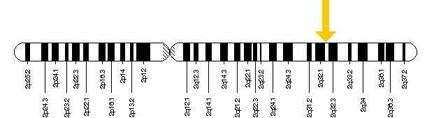 MSTN gene (Myostatin). Cytogenetic Location: 2q32.2 The MSTN gene is located on the long (q) arm of chromosome 2 at position 32.2. More precisely, the MSTN gene is located from base pair 190,055,700 to base pair 190,062,729 on chromosome 2. (Homo sapiens Annotation Release 107, GRCh38.p2)